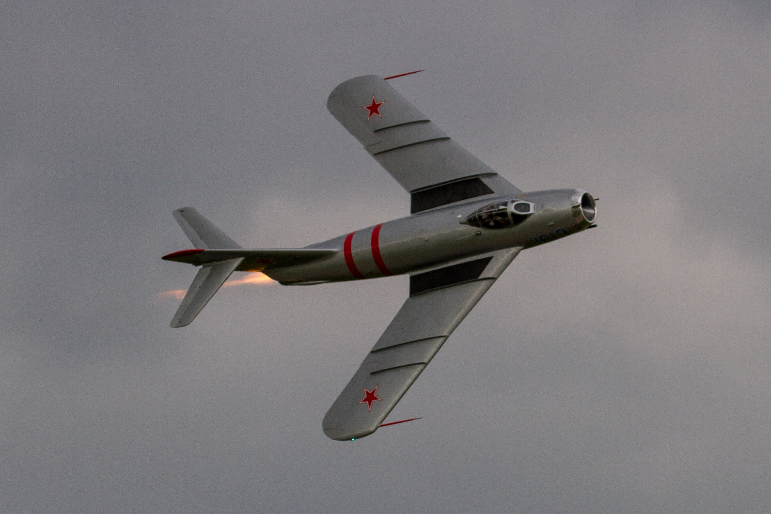 A MiG-17 flying by at Take to the Skies Airfest 2016 in Durant, Oklahoma.